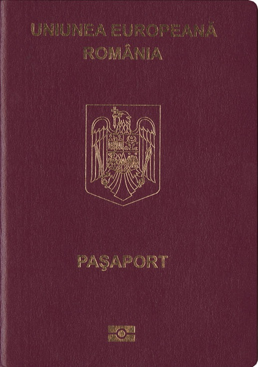 Romanian Passport Front Cover